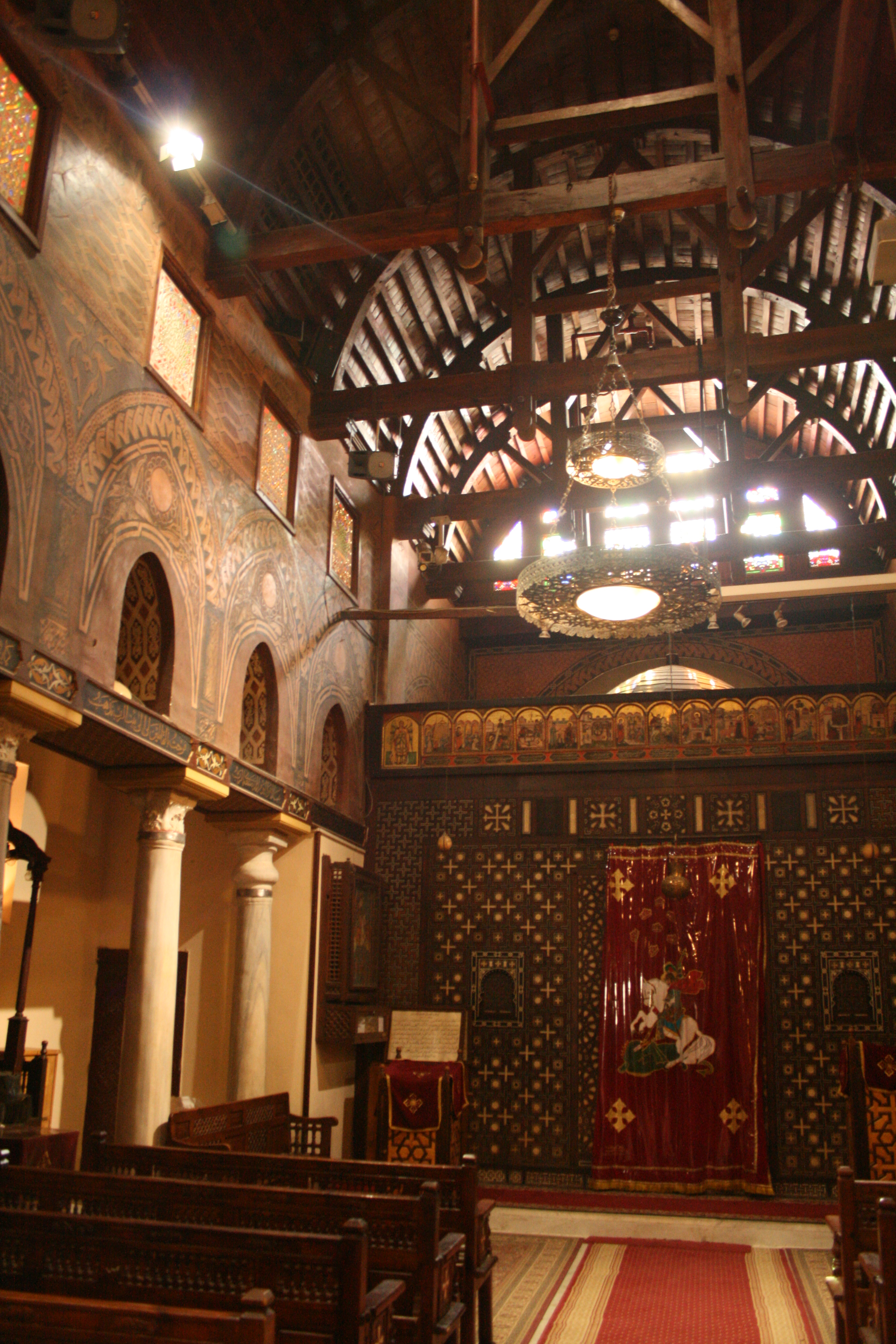 Hanging Church, Old Cairo, Egypt